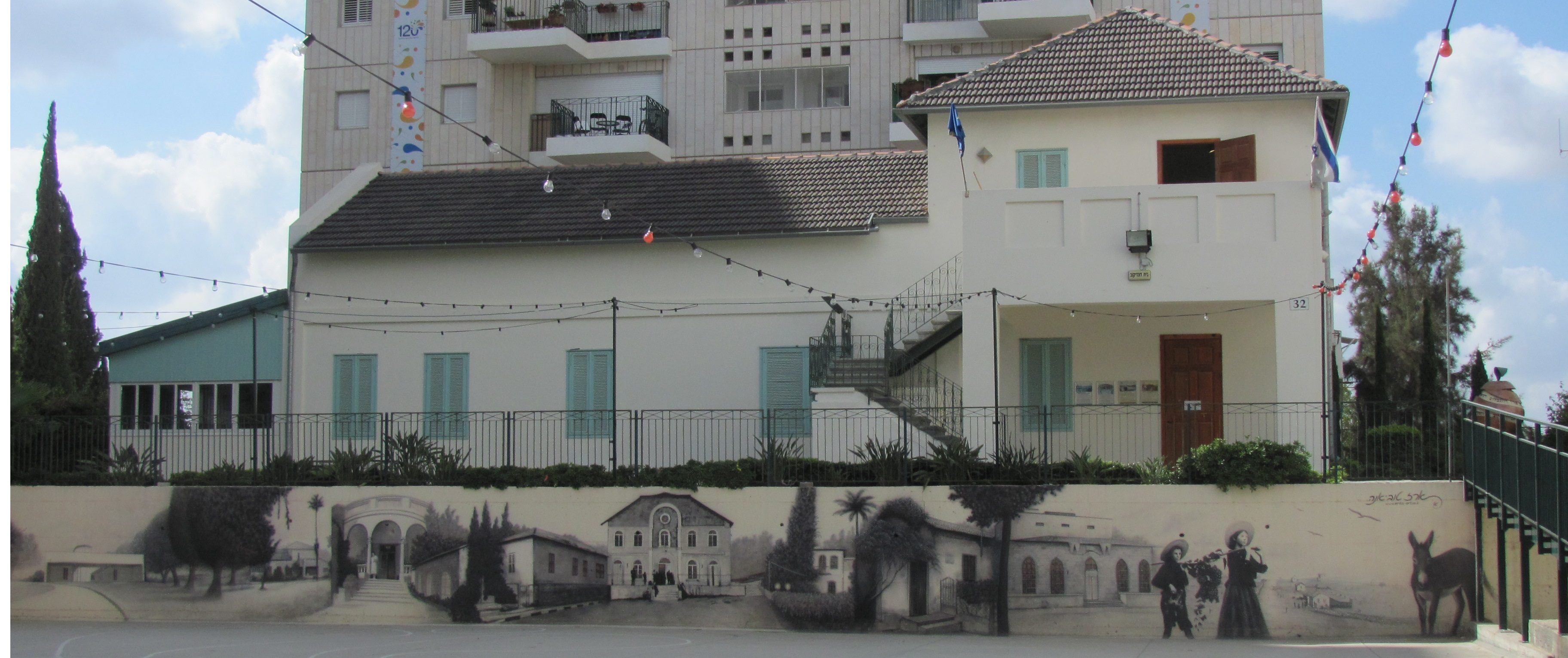 Dondikov house, the third house of Rehovot.